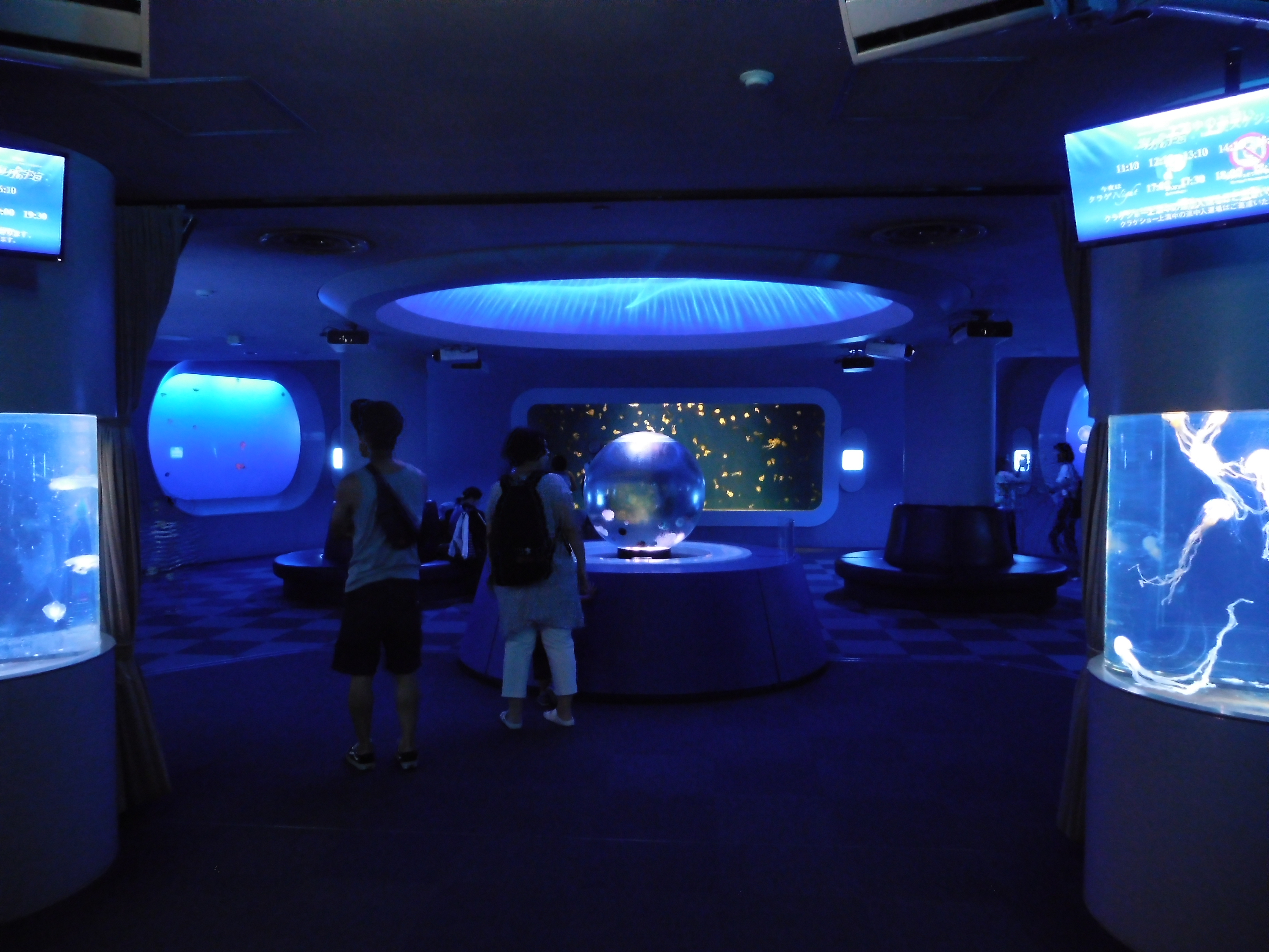 This is the Jellyfish Fantasy Hall at Enoshima Aquarium, Kanagawa, Japan.